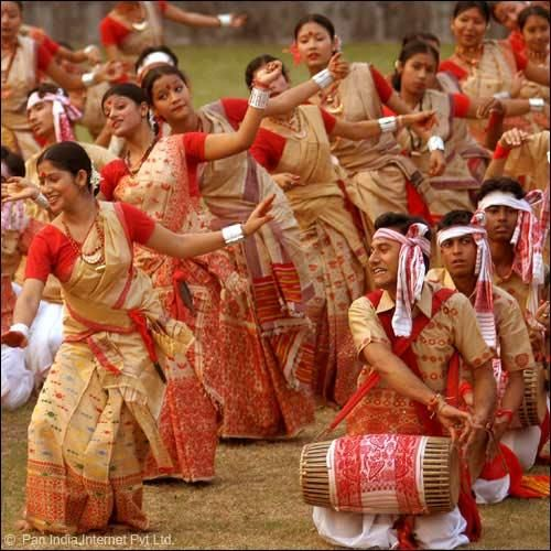 It is a folk dance of Assam performed during Bhiu festival This photo has been taken in the country: India